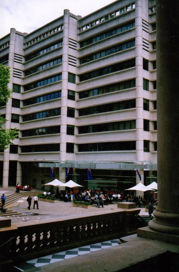 St Andrew's Cathedral School St Andrew's House Campuse